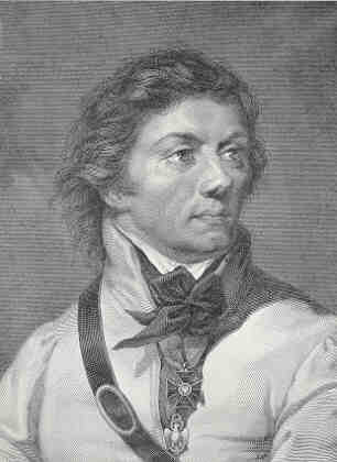 Thaddeus Kosciuszko